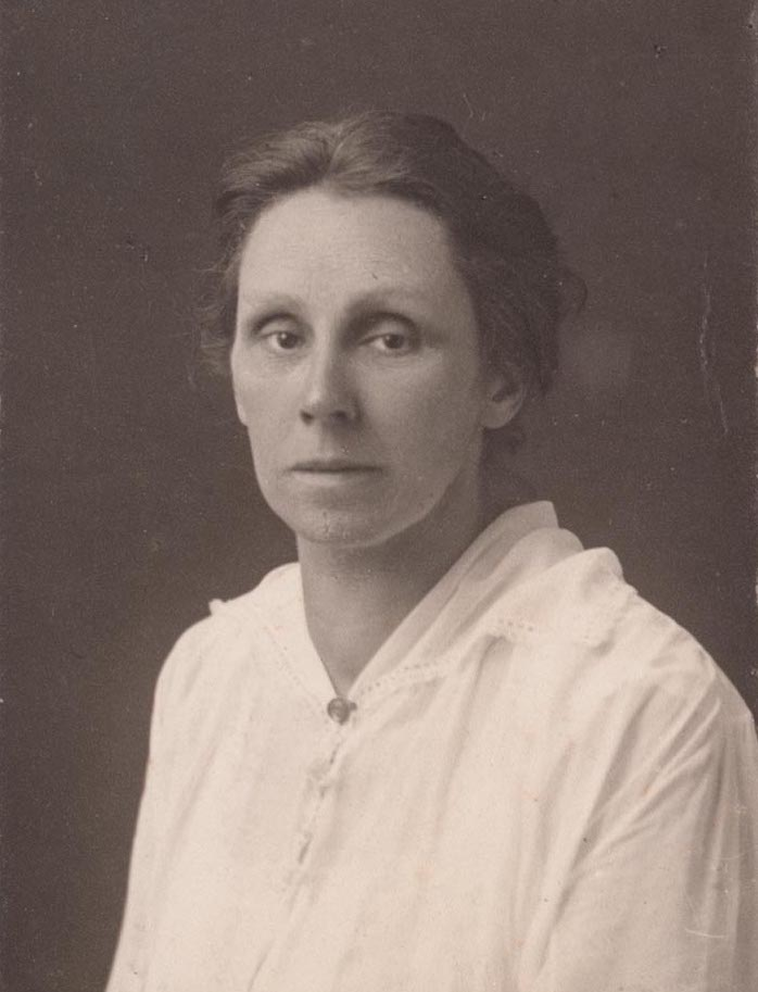 Portrait of Henriëtte Roland Holst-van der Schalk anytime before 1918.